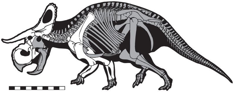 Nasutoceratops titusi, n. gen et. sp., skeletal reconstruction with elements presently known in white. (a,b) Scale bars 1 m.